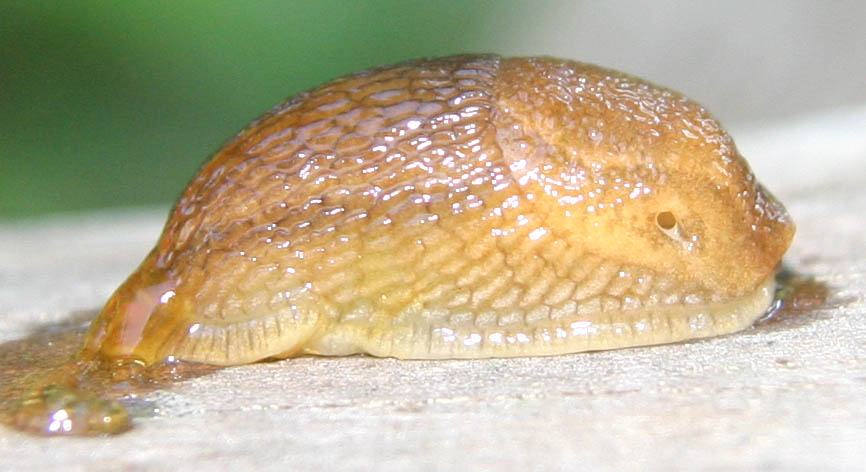 Arion subfuscus Locality: CZ, Moravia, PR Panské louky, 7 June 2004